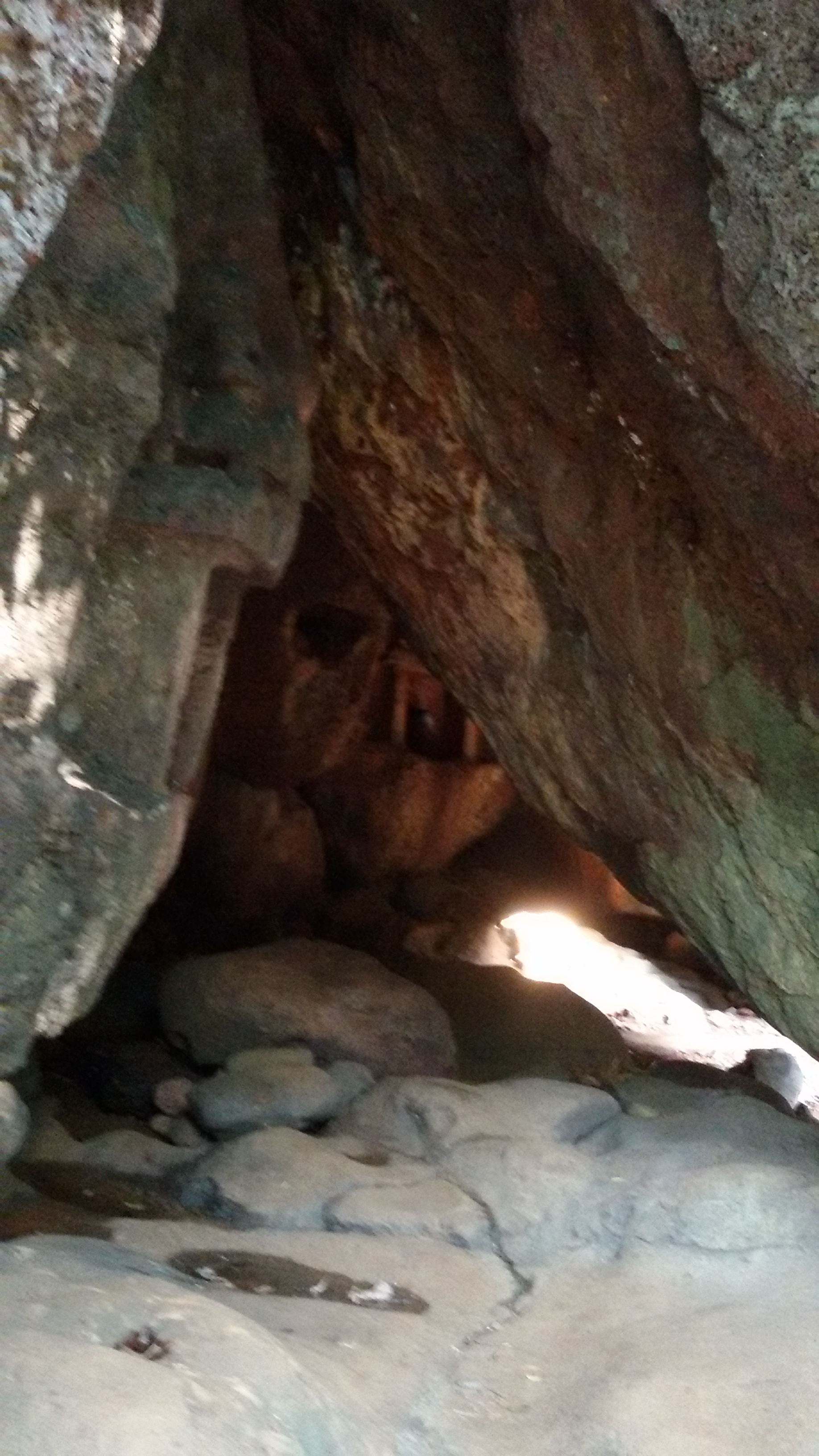 Shivling in Pandav Caves